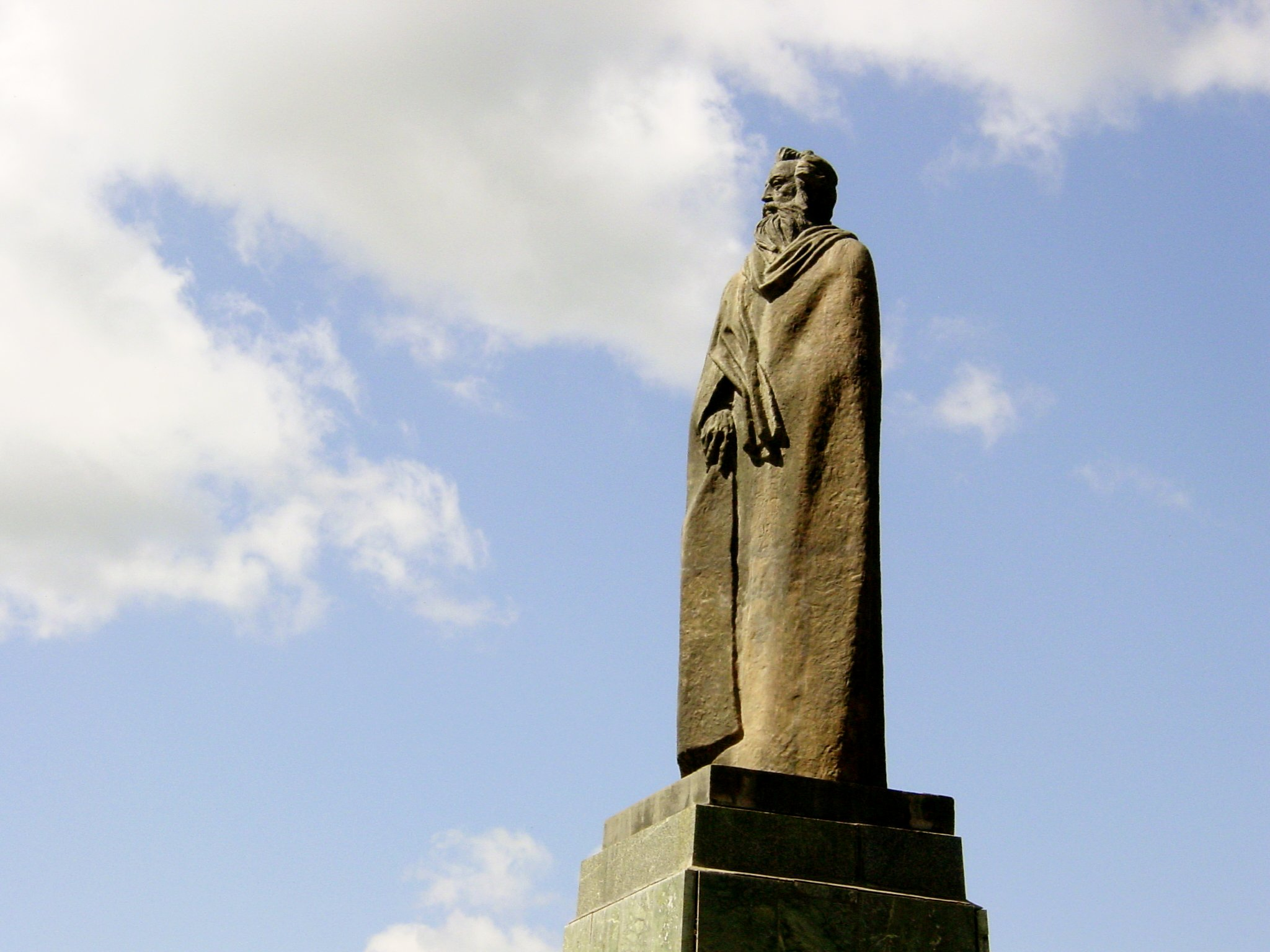 Statue of a Great Georgian writer in Stephantsminda, Georgia.